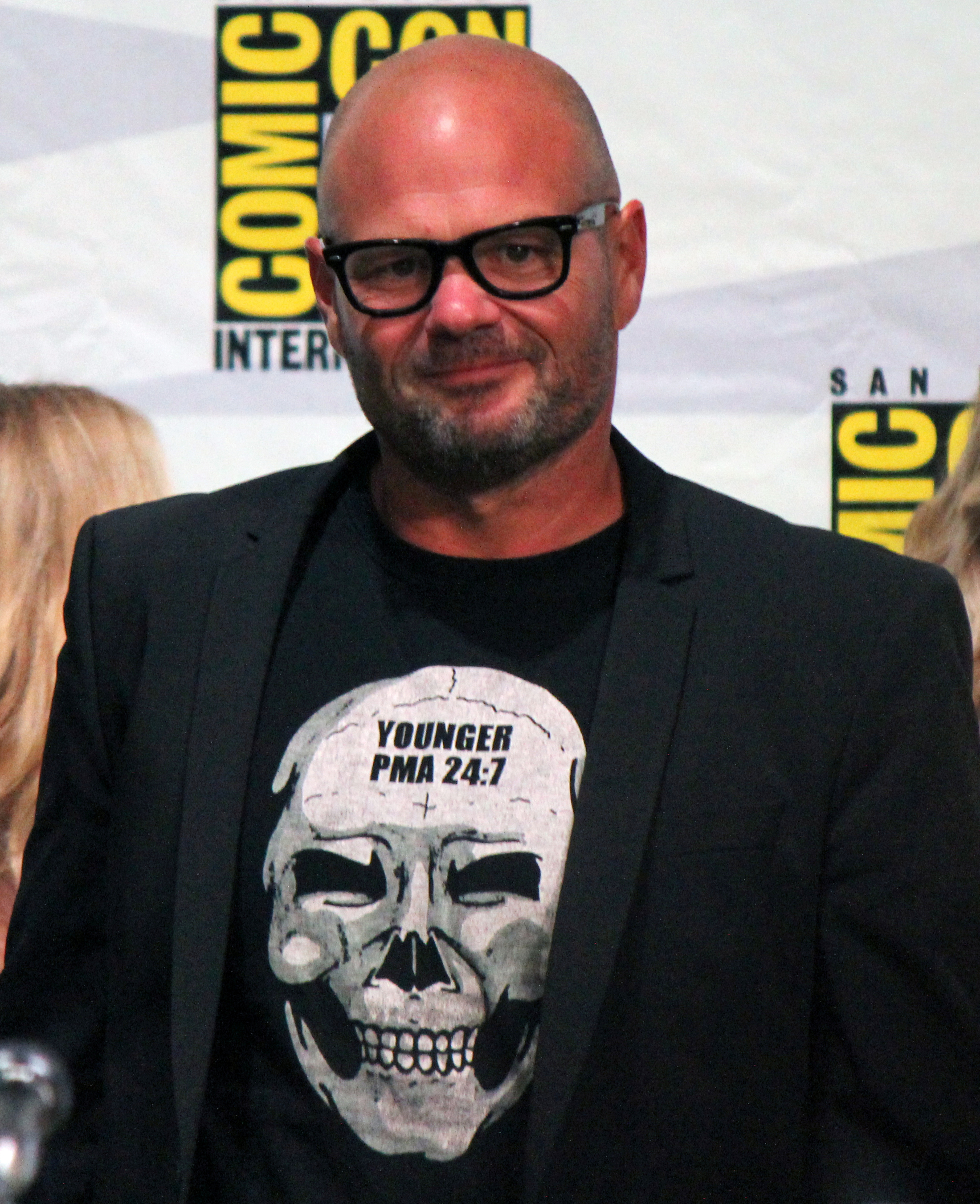 Chris Bauer at the True Blood panel at the 2014 Comic-Con convention in San Diego, California.